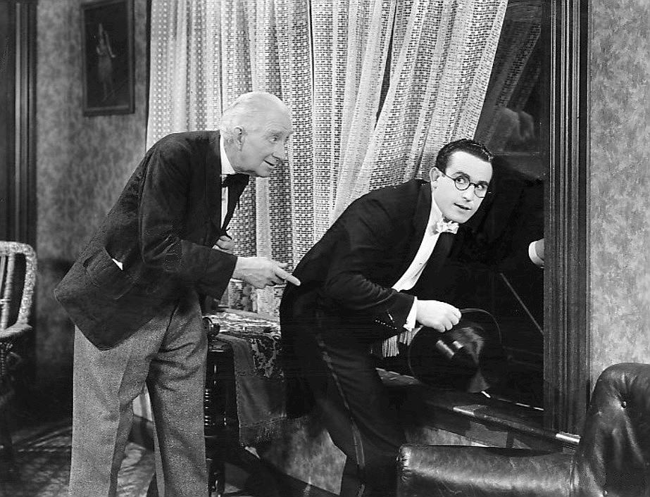 Still of Alec B. Francis and Harold Lloyd in the American comedy film Feet First (1930).